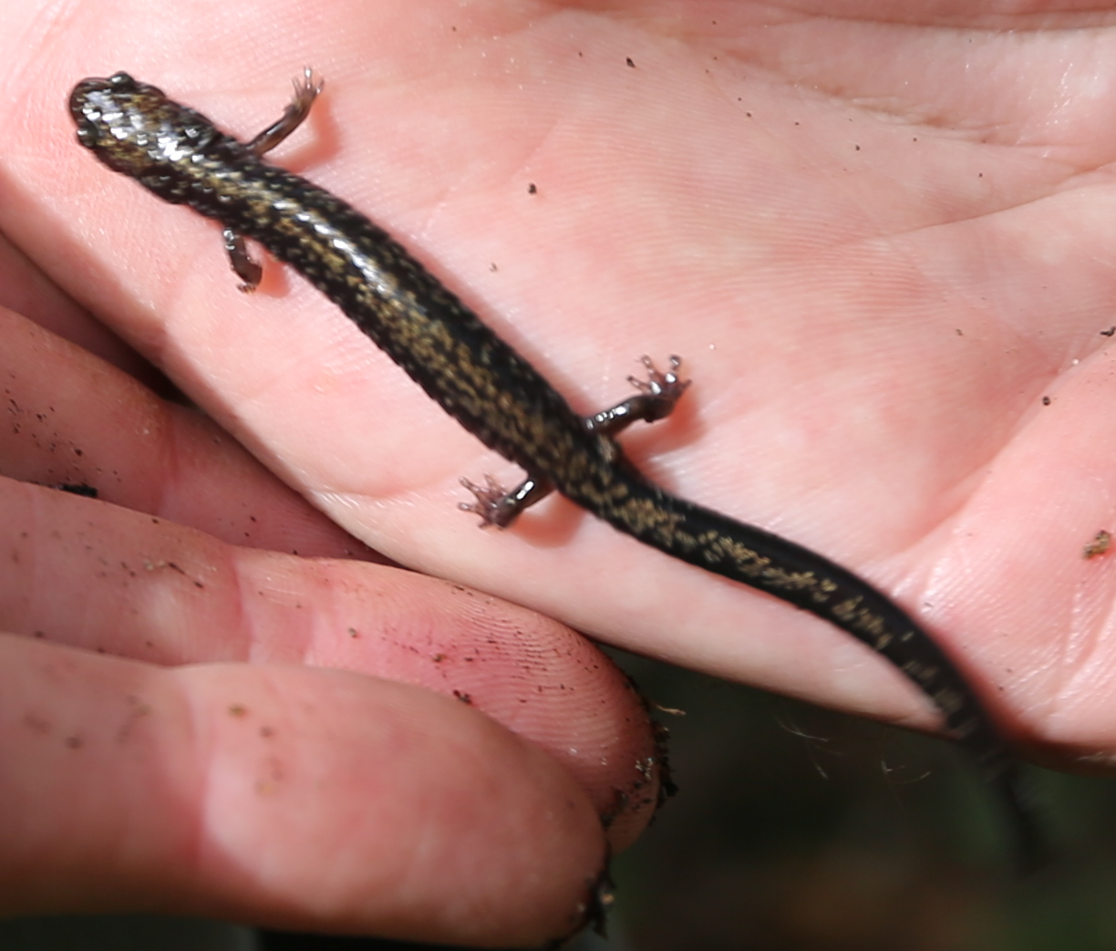 J.D. Kloepfer with Virginia Department of Game and Inland Fisheries holds a Peaks of Otter salamander. Credit: Meagan Racey/USFWS